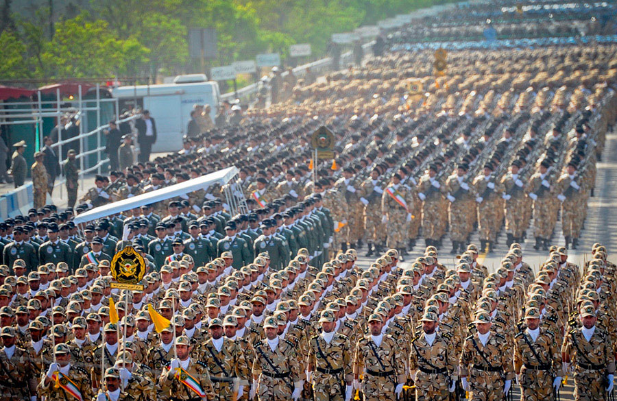 Islamic Republic of Iran Army soldiers and pilots marching in front of Mahmoud Ahmadinejad (former deputy commander-in-chief of the Army of Iran) and highest ranking commanders of Armed Forces of the Islamic Republic of Iran during Islamic Republic of Iran Army Day.